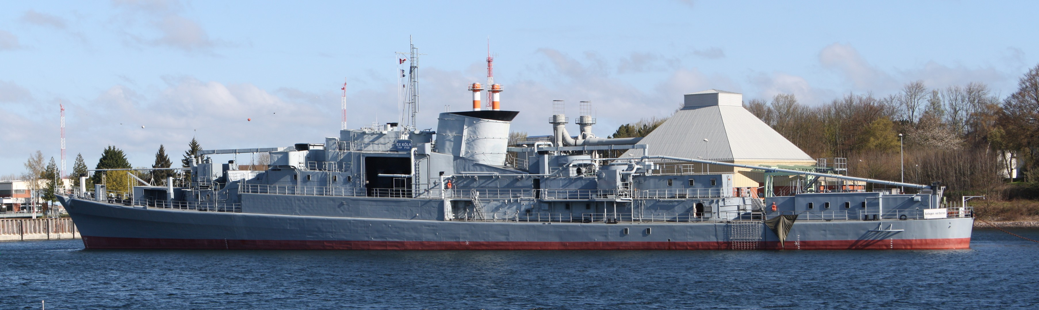 German ship Köln F120.